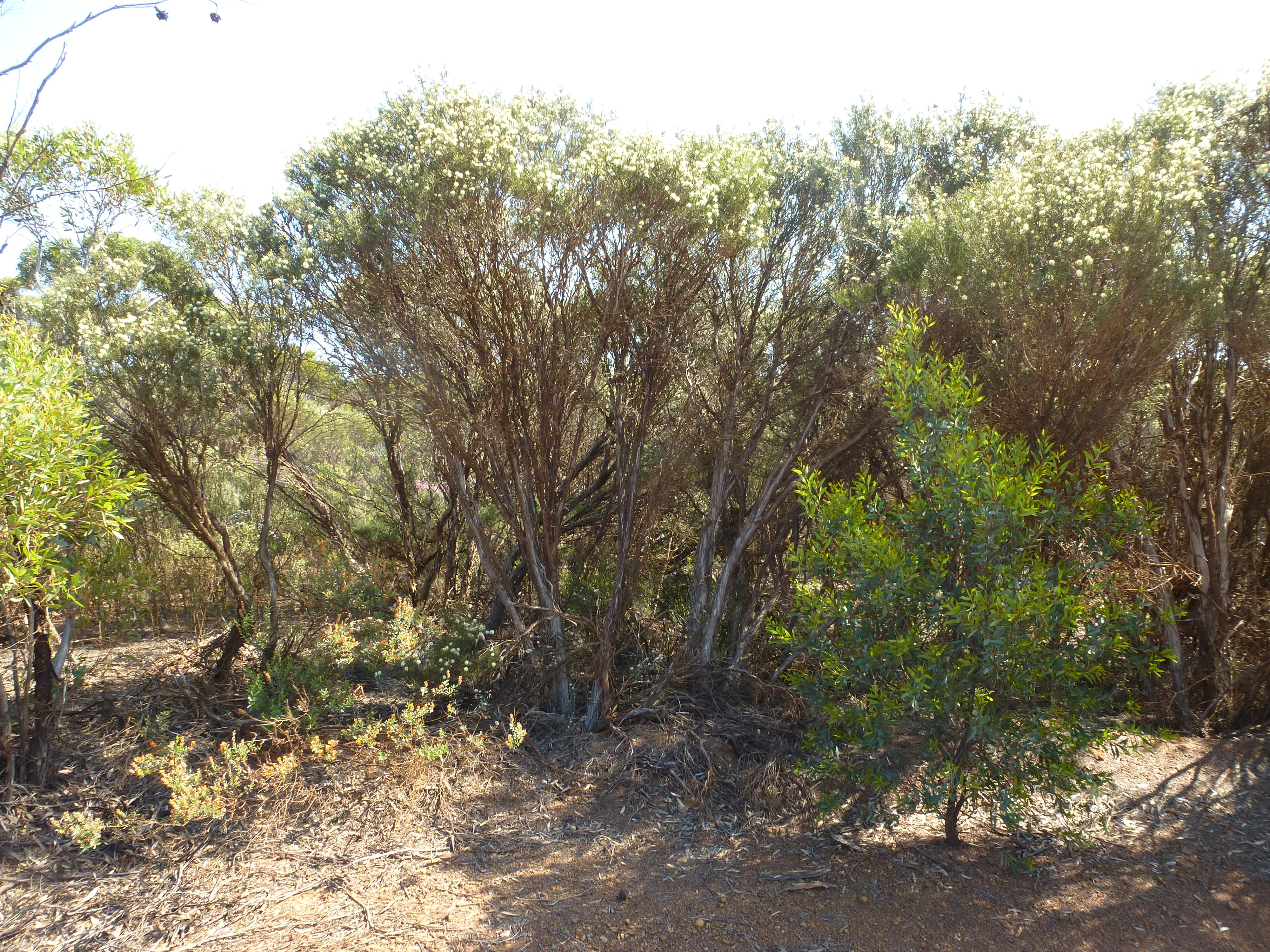 Melaleuca hamata growing along Elverdton Road near Ravensthorpe